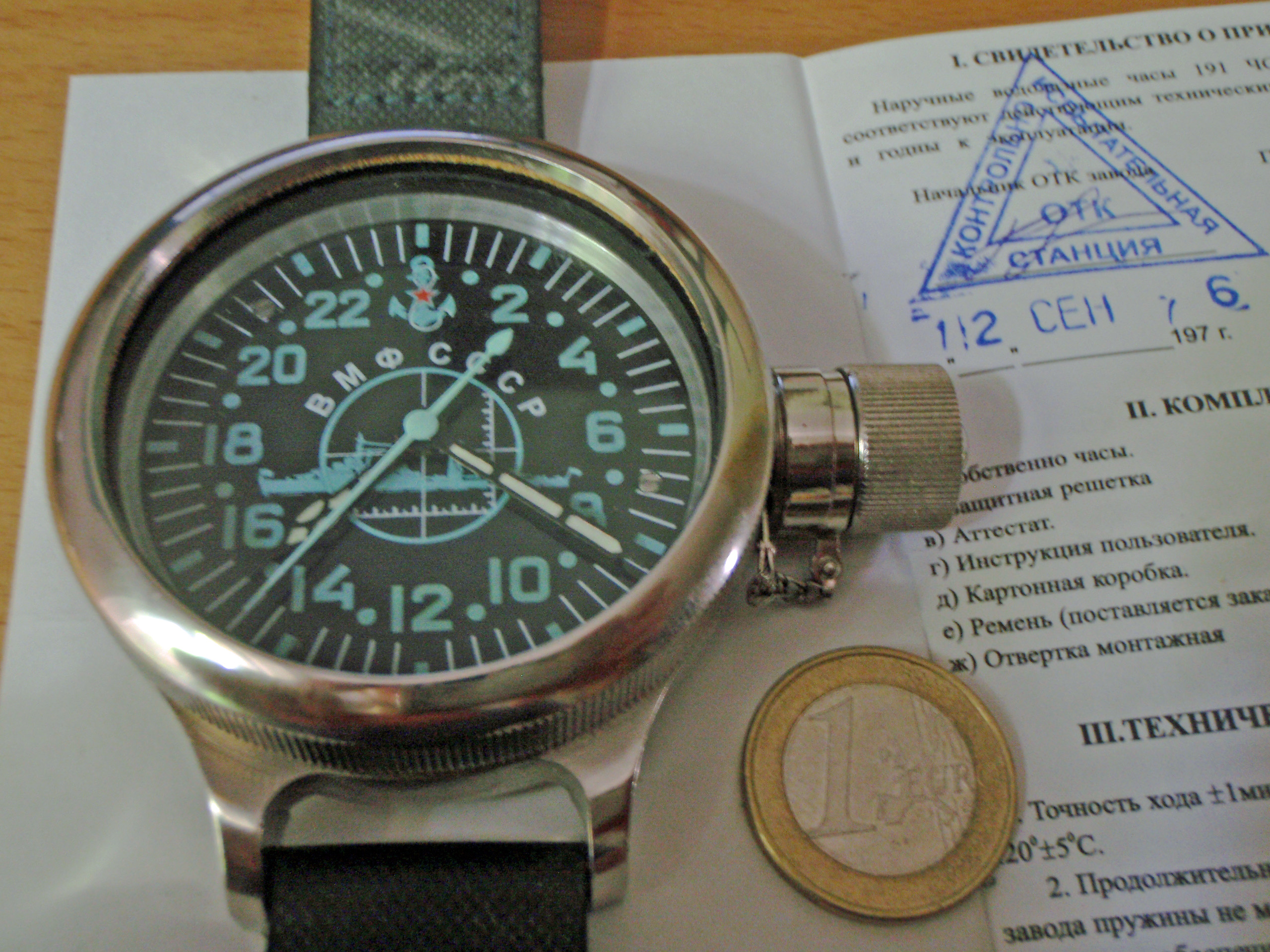 a picture from a 24h Slaoust-Diver-Watch